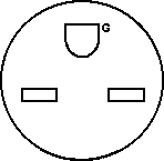 NEMA 6–15R